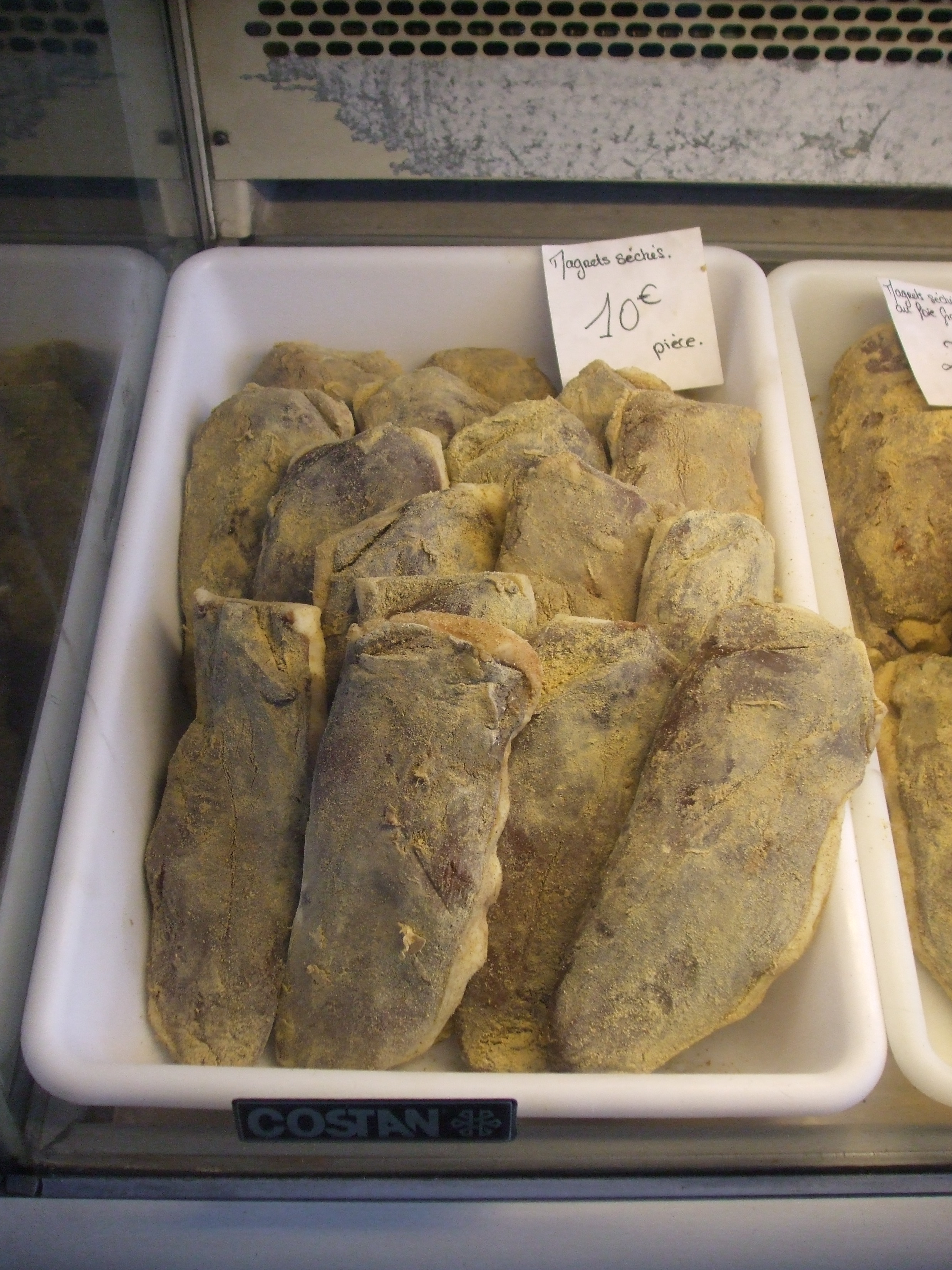 Dried duck breast, marché de Brive-la-Gaillarde, France